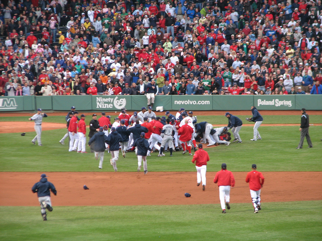 Bench-clearing brawl on June 5, 2008 game between the Boston Red Sox and the Tampa Bay Rays